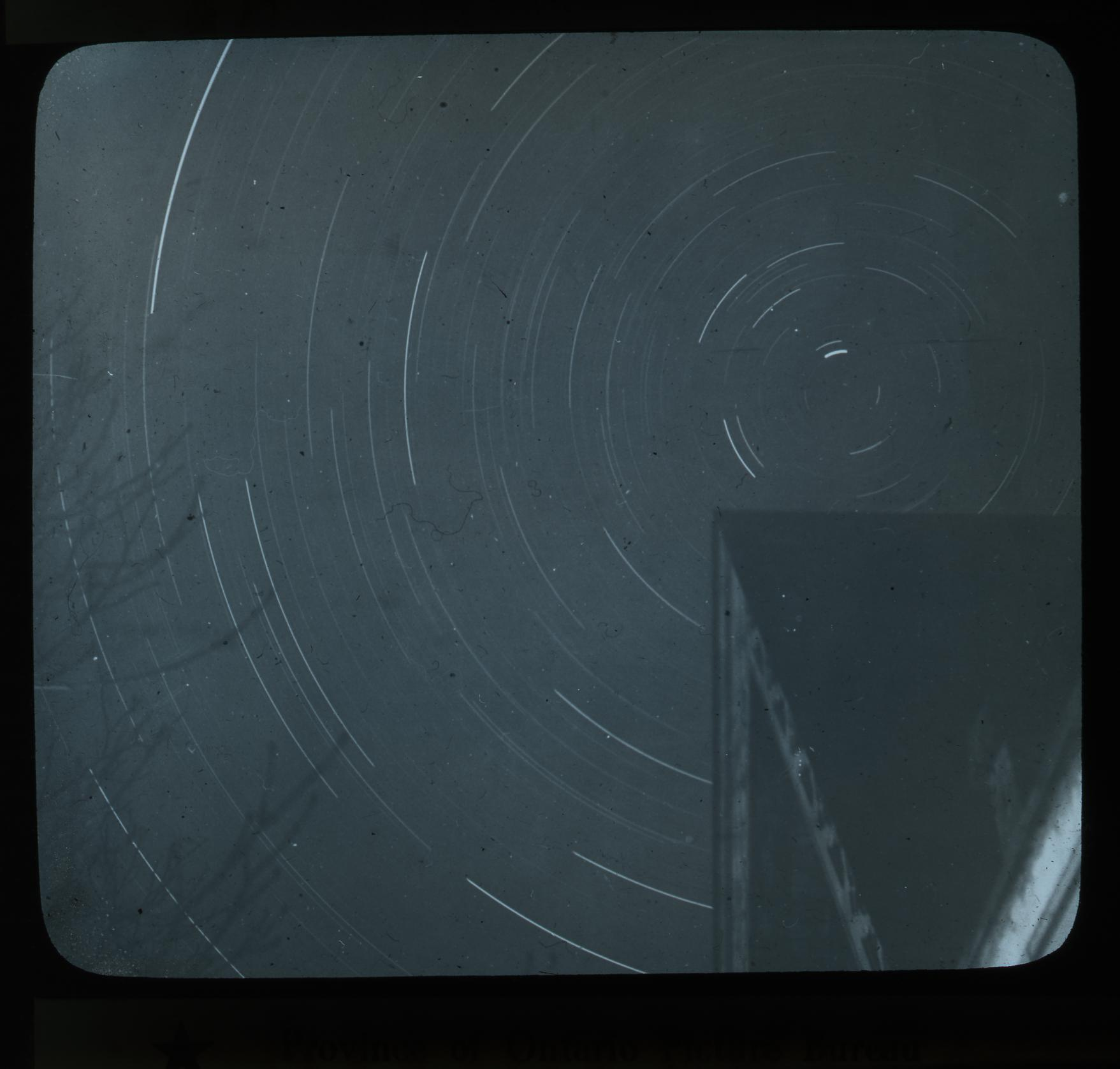 Slide produced by the Province of Ontario Picture Bureau, probably in the 1920s, for use in Ontario schools. Donated to the Community Archives of Belleville and Hastings County by Mike and Sue Mills in October 2015.